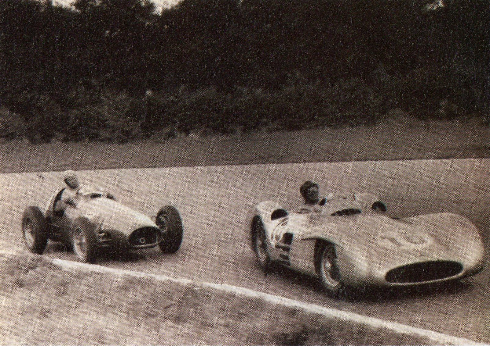 A moment in the 1954 Italian Grand Prix: Ascari (Ferrari 625) chasing Fangio (Mercedes-Benz W196)